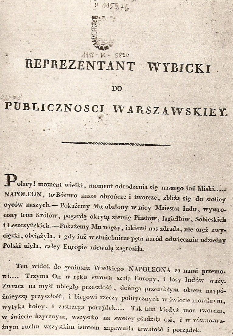 Józef Wybicki, proclamation to the population of Warsaw (1806)